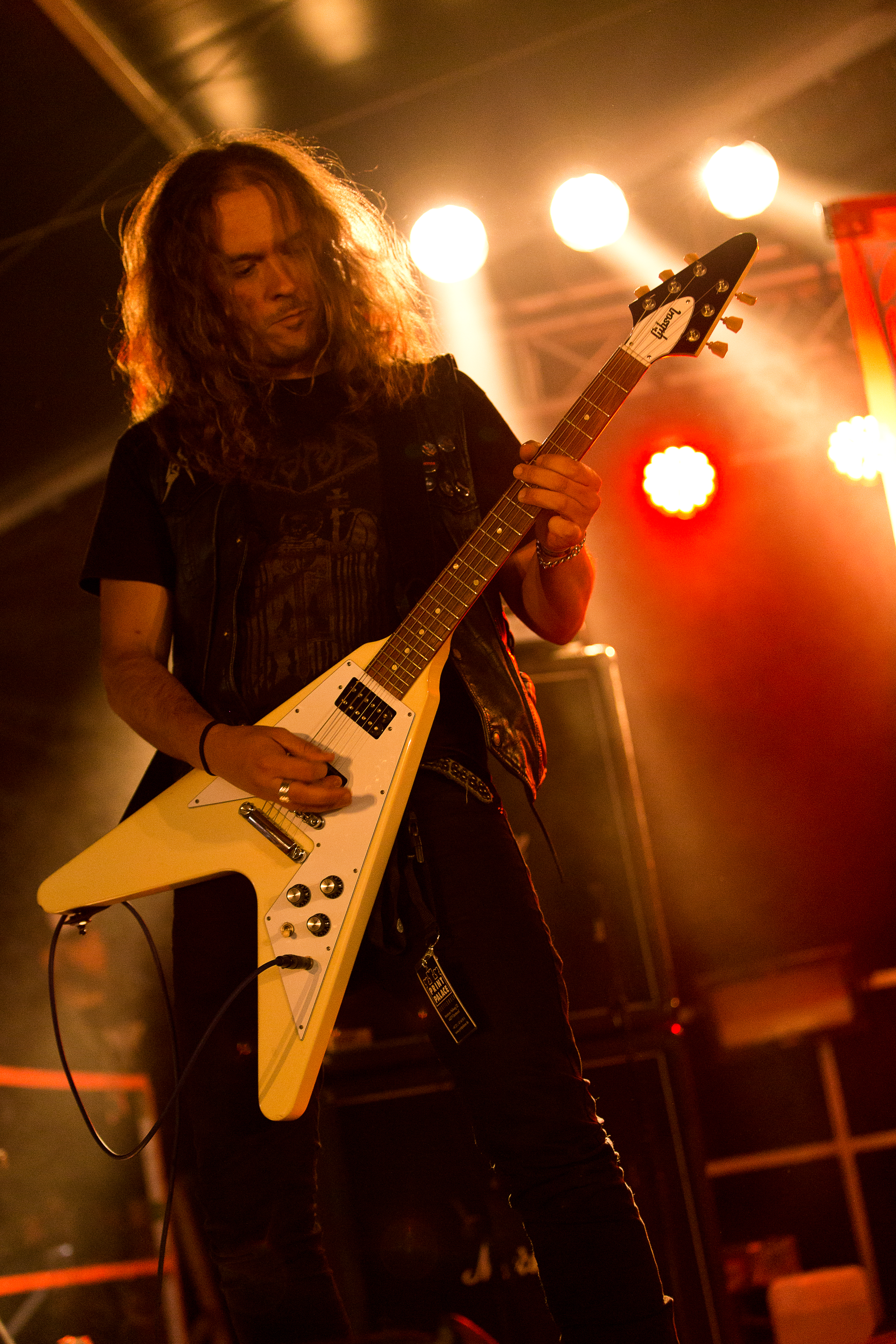 The Spanish death metal band Graveyard at the Party.San Metal Open Air 2016 in Obermehler-Schlotheim/Germany